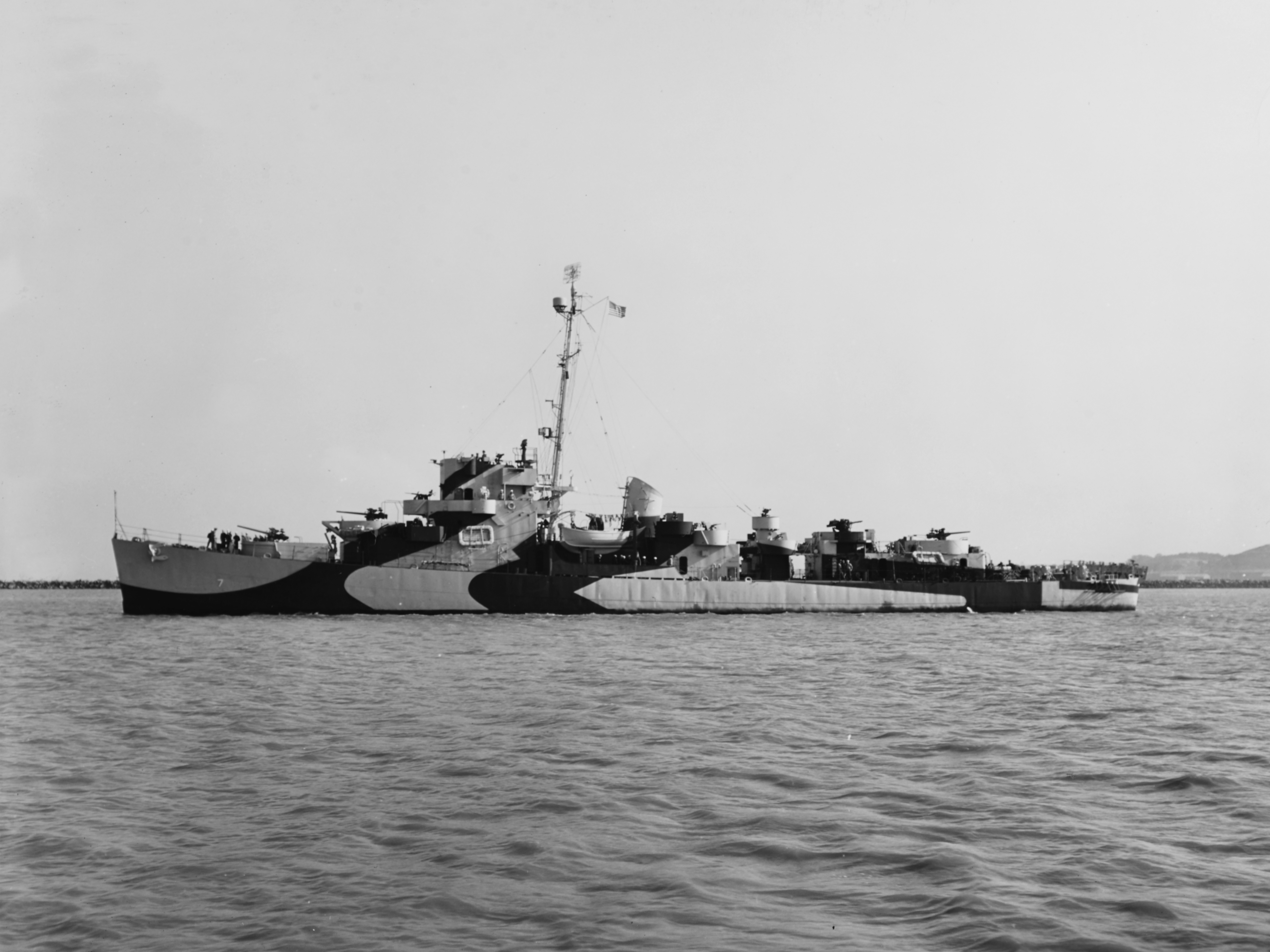 The U.S. Navy destroyer escort USS Griswold (DE-7) off the Mare Island Naval Shipyard, California (USA), on 23 May 1944. The ship is painted in Camouflage Measure 31 or 32, Design 22D.